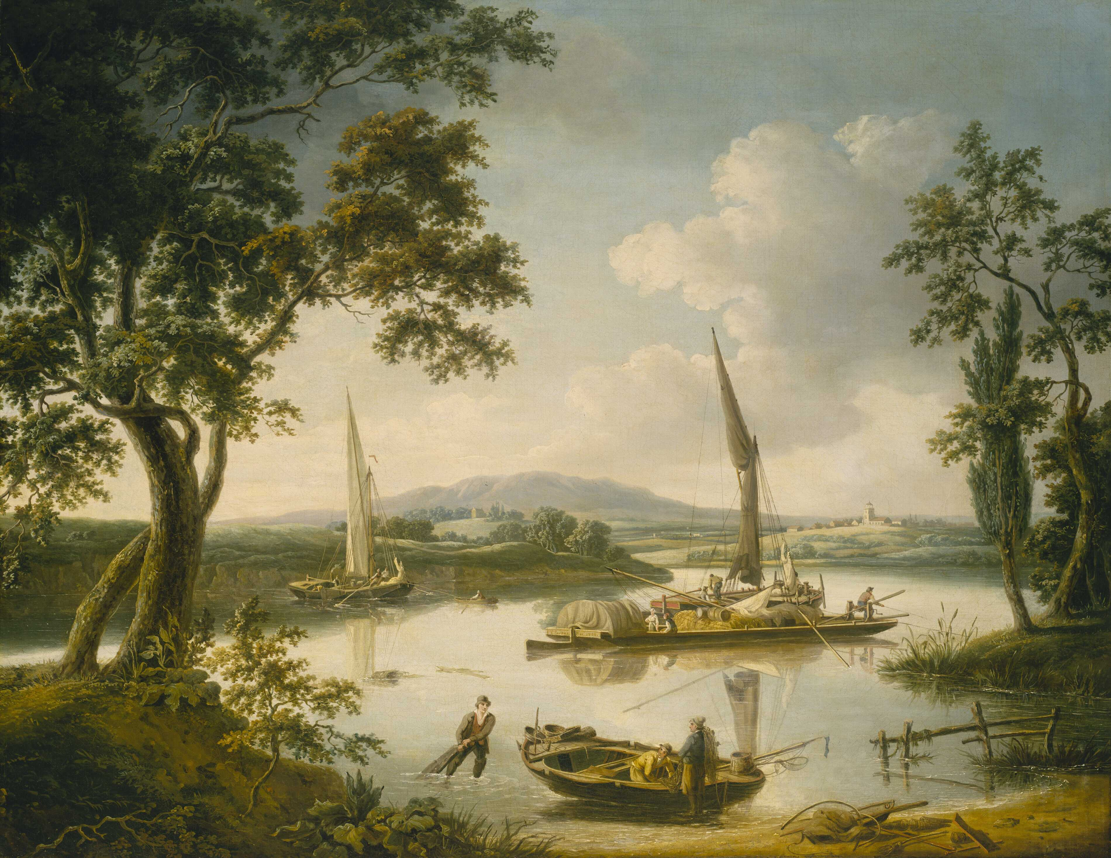 A landscape showing Keen Edge, Shillingford, in Oxfordshire, with Dorchester Abbey visible in the distance. The River Thames is in the foreground and the artist has included examples of the types of boat that would have been familiar on the Thames. There are three different Thames craft, two spritsail 'upstream' barges used for trading with London together with a flat lighter-barge carrying hay. In the foreground is a fishing boat known as a Peter boat which was a common sight on the River Thames and its estuary, its main characteristic being possession of a fish well in the centre, where the catch was kept alive until landed. The idealized setting evokes Dutch 17th-century landscape painting and the pronounced reflections reinforce an air of stillness and unreality.